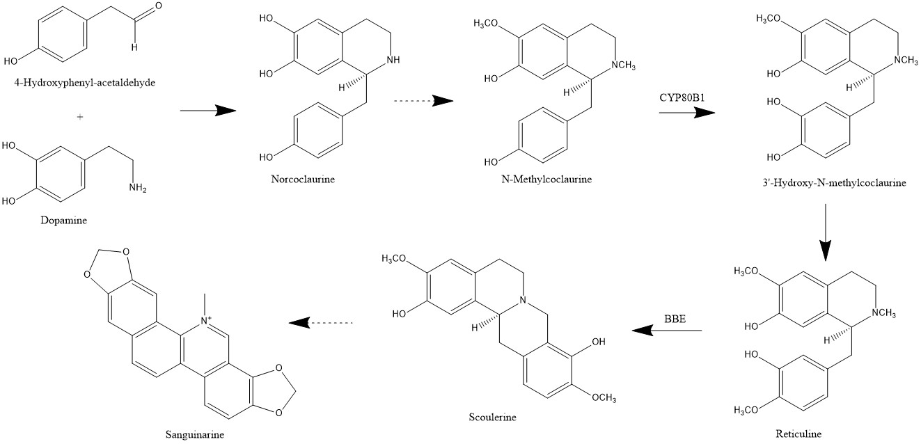 The biosynthesis of sanguinarine as determined by Alcantara et al. (2005).